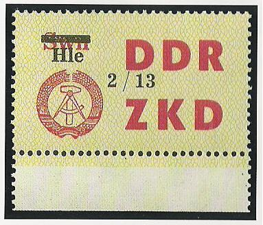 ZKD label of the German Democratic Republic